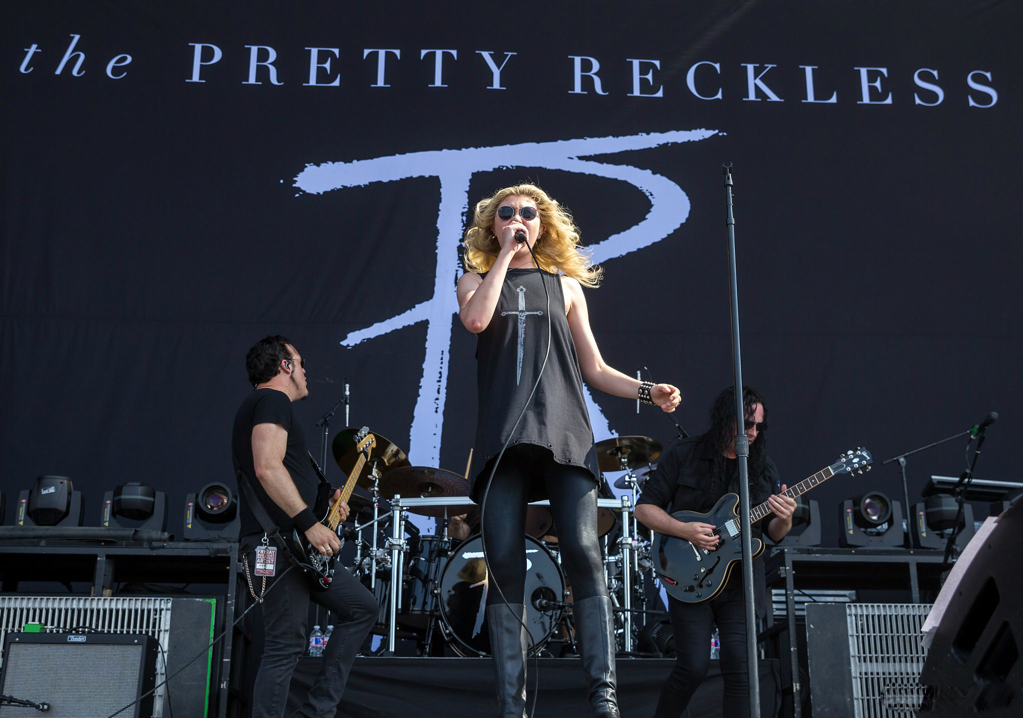 The Pretty Reckless performing at the River City Rockfest at the AT&T Center in San Antonio, Texas on May 27, 2017.